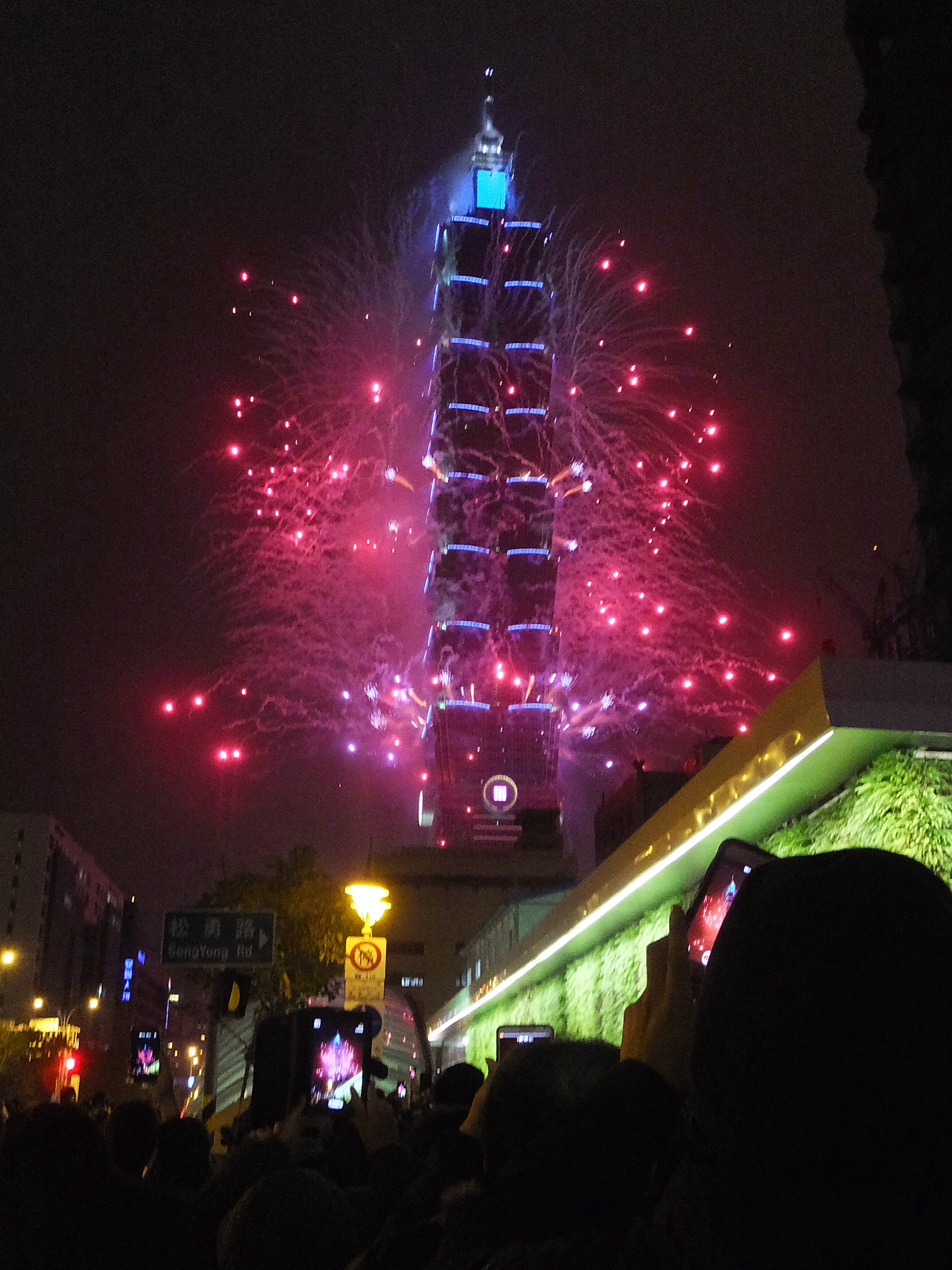 Taipei 101 New Year Firework 台北101跨年煙火